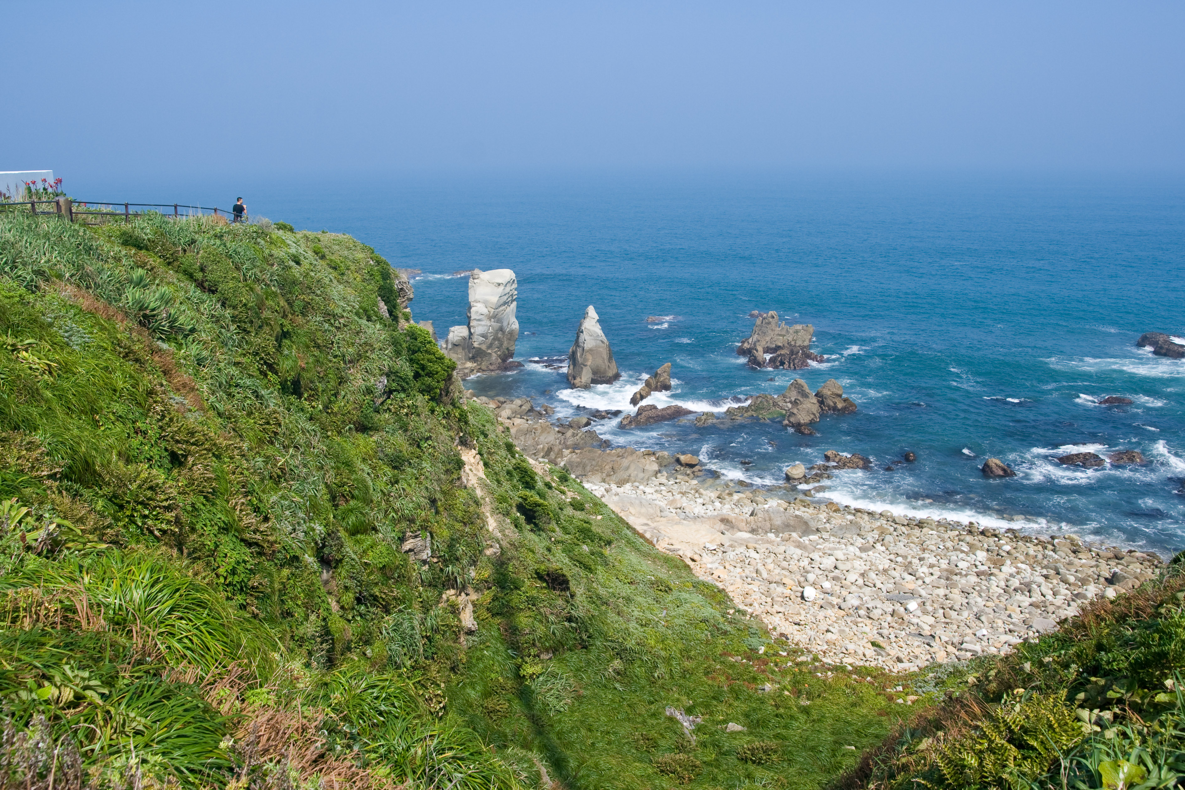 Cape Inubō, Choshi City, Chiba Prefecture, Japan.